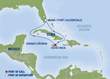 70000TONS OF METAL 2015 route, Fort Lauderdale - Ocho Rios, Jamaica